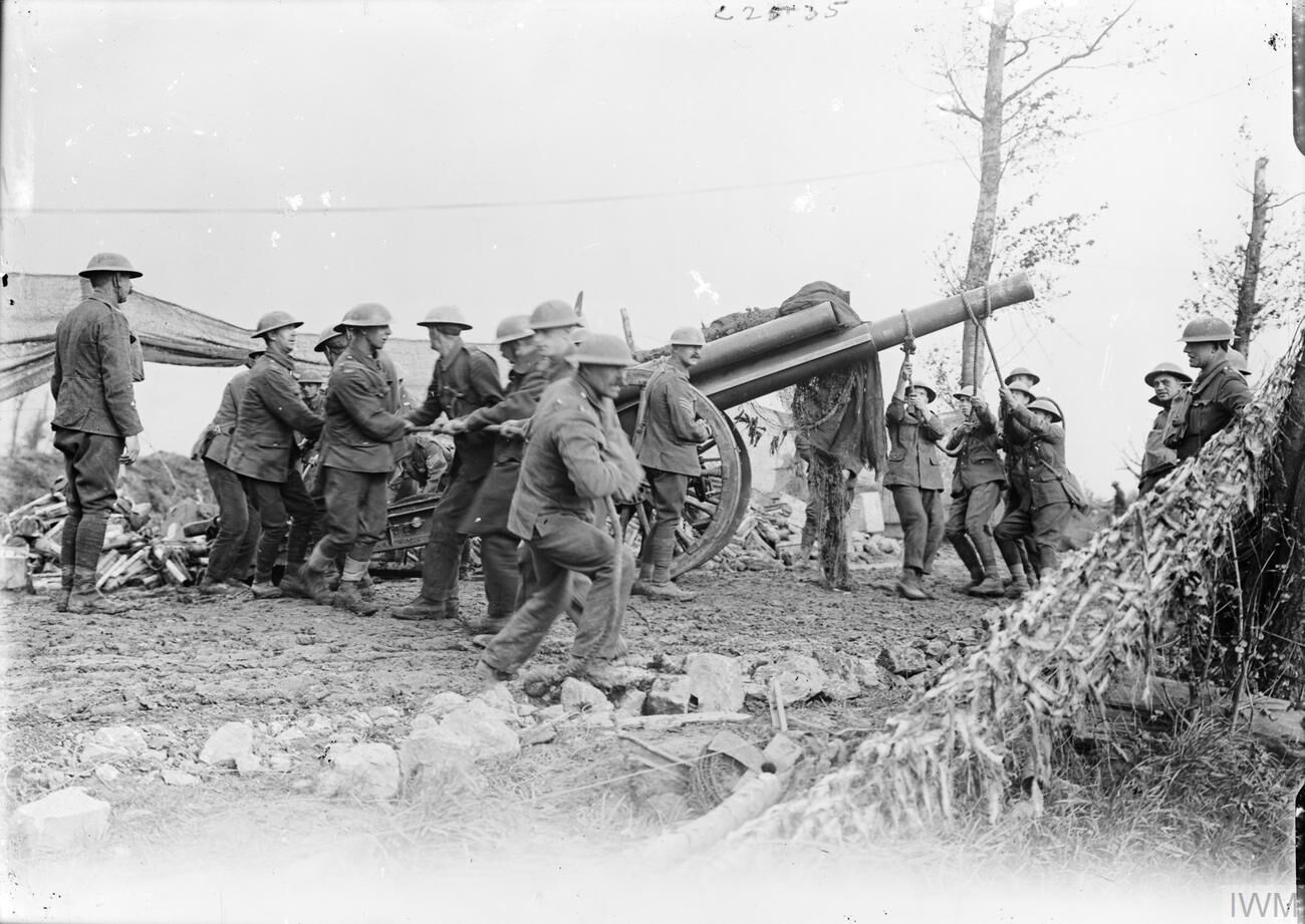 IWM caption : THE BATTLE OF PASSCHENDAELE, JULY-NOVEMBER 1917. Men of the Royal Garrison Artillery (R.G.A.) moving a 60 pounder Mark I out of its emplacement to move it forward, Wieltje, 5 September 1917. Other photographs in this sequence : File:60-pounder gun at Wieltje Sep 1917 IWM Q 3020.jpg